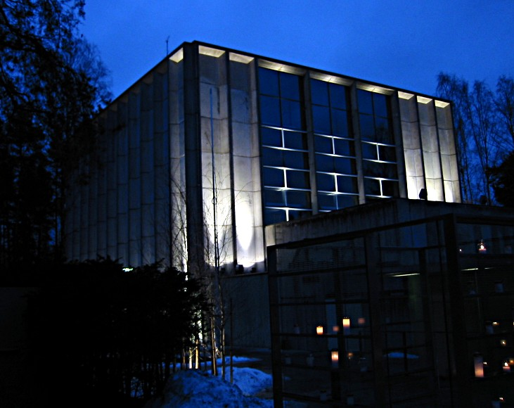 Tapiola Church in Espoo, Finland. Completed in 1965. Architect: Aarno Ruusuvuori.